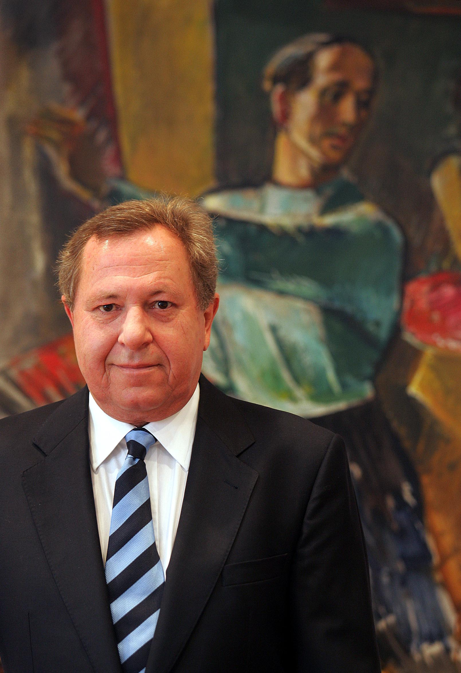 Bild: SN / Robert Ratzer Dr. Max Dasch Herausgeber der Salzburger Nachrichten